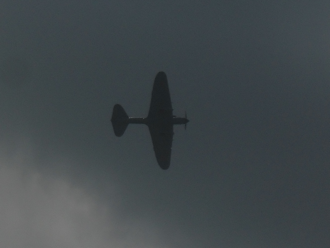 Restored IL-2 making it's flight during Moscow International Airshow, July 21st, 2017.